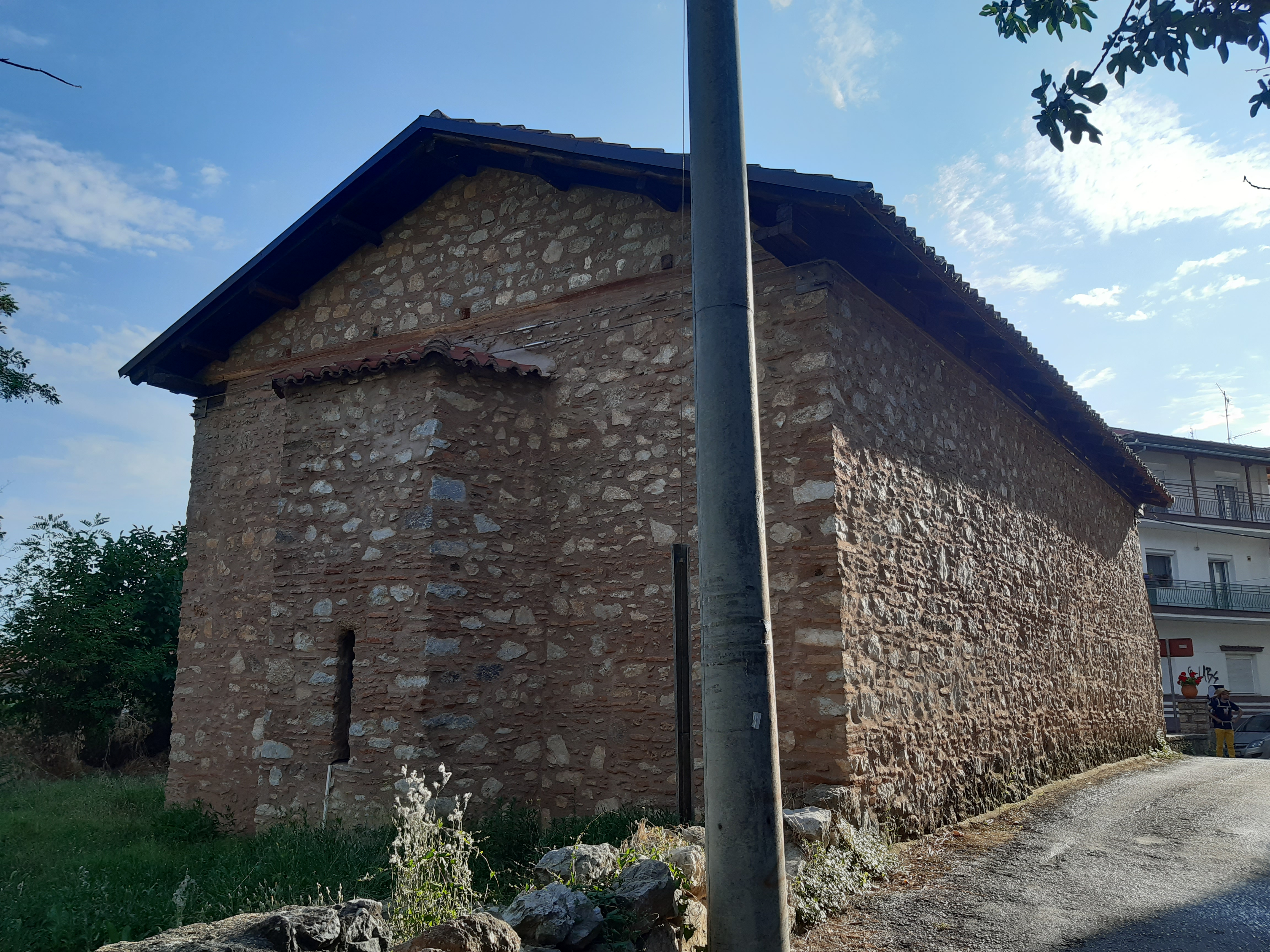 Holy Apostles Church, Kastoria